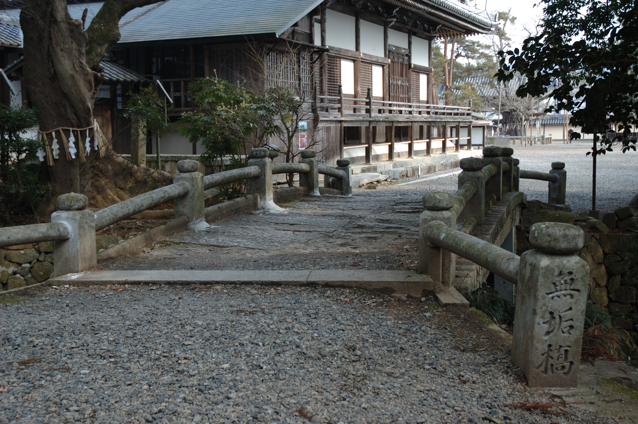 Mukubashi-bridge(built in 1920)